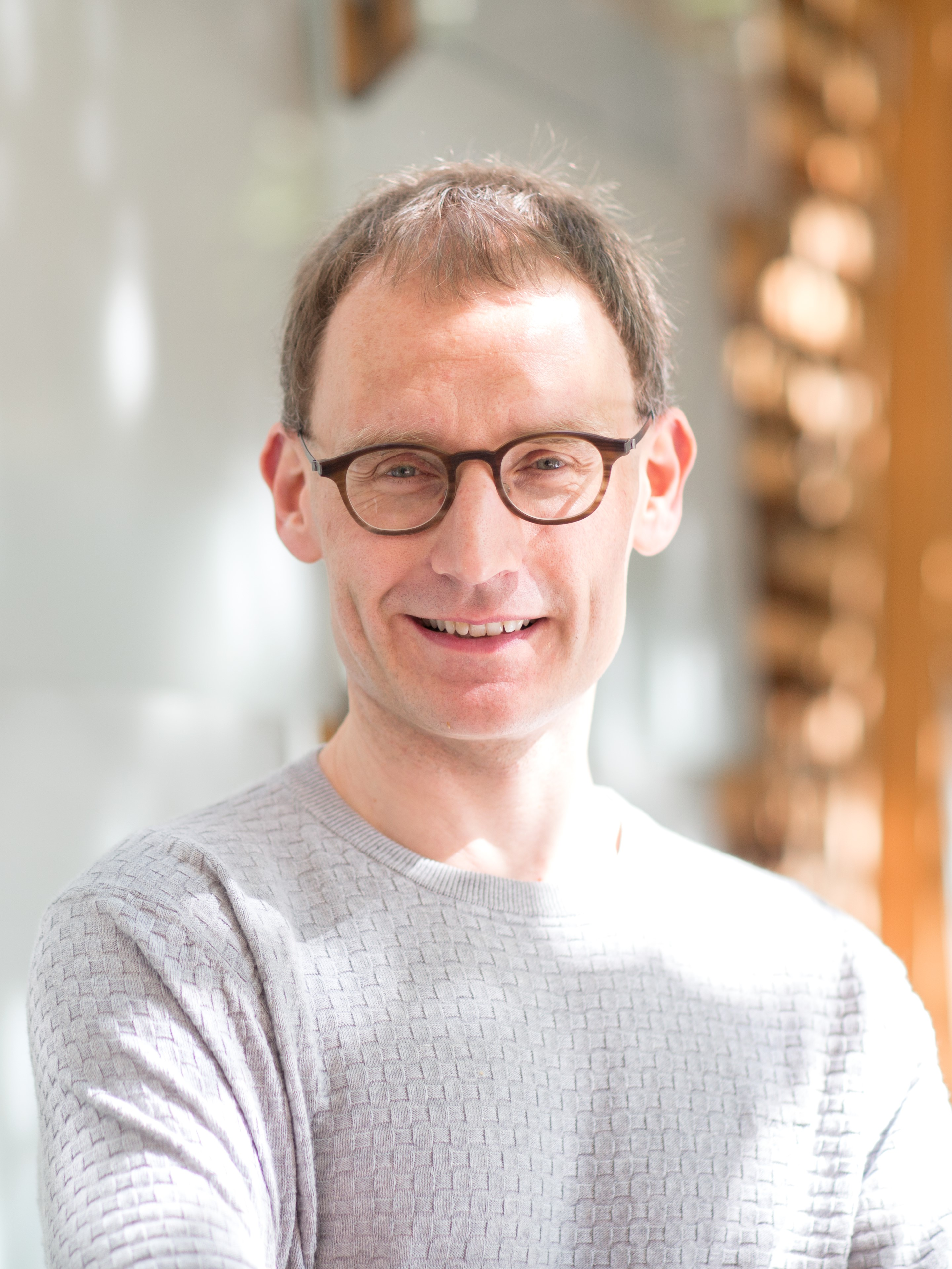 Neil Ferguson profile picture